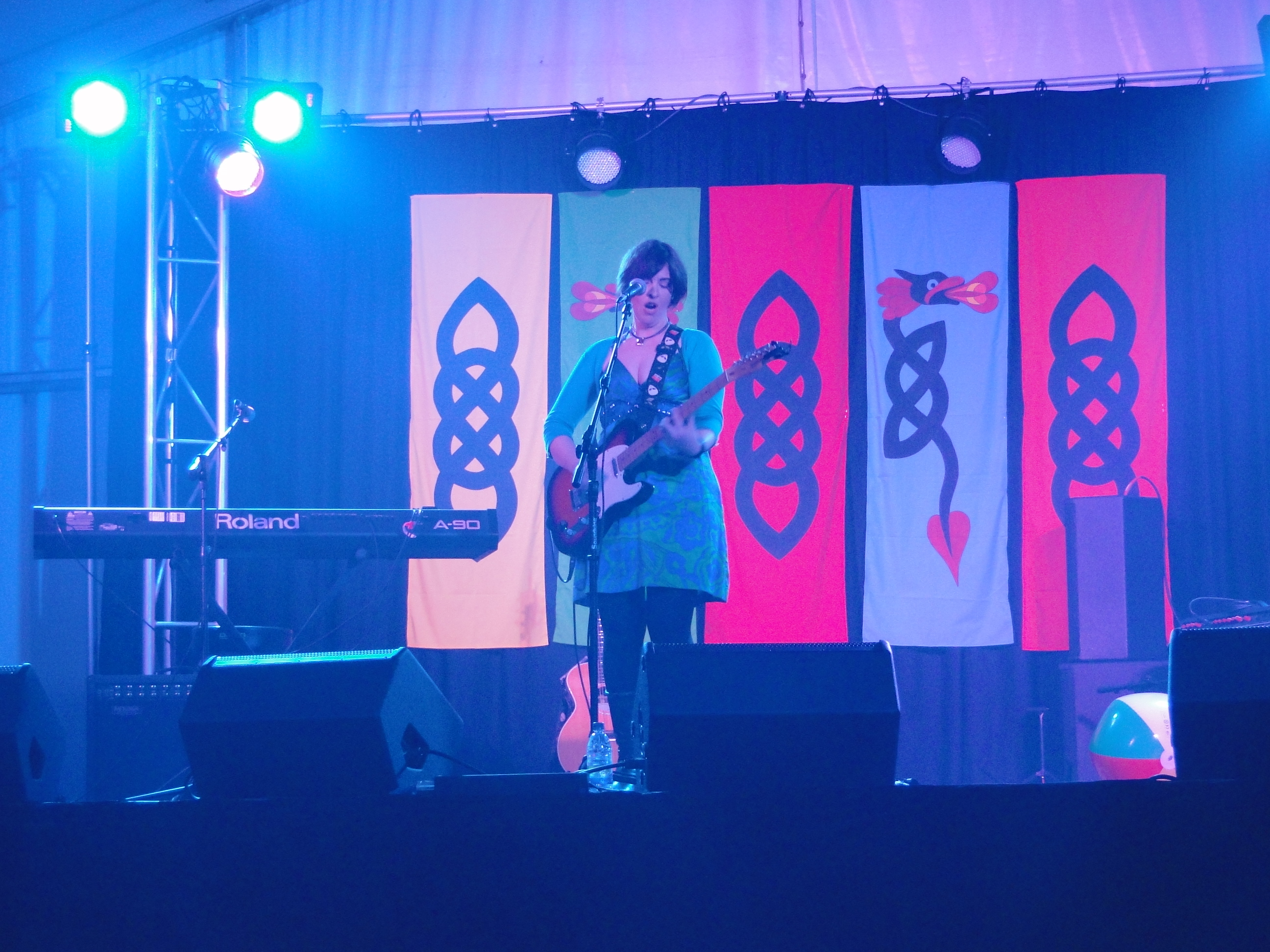 Eleanor McEvoy performing at the National Celtic Festival, Portarlington, Victoria, Australia in 2011.